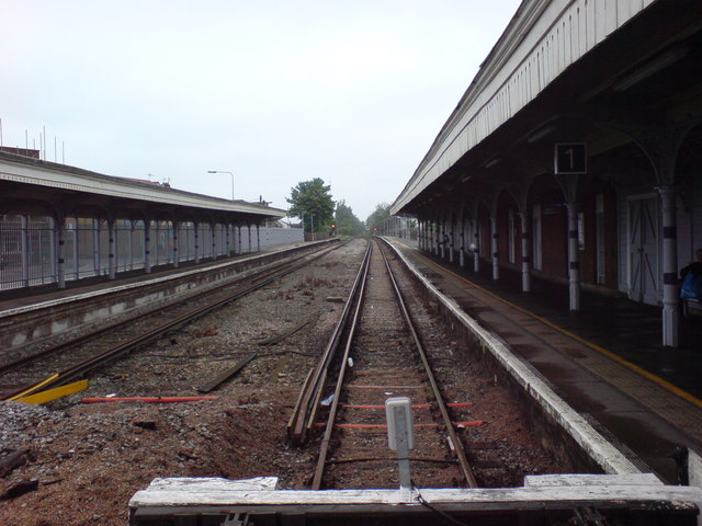 Sheerness-on-Sea railway station Original description: Sheerness Railway Station (1) This is the end of the line. Trains run from here to Sittingbourne, stopping at some stations in sparsely populated places on the way.